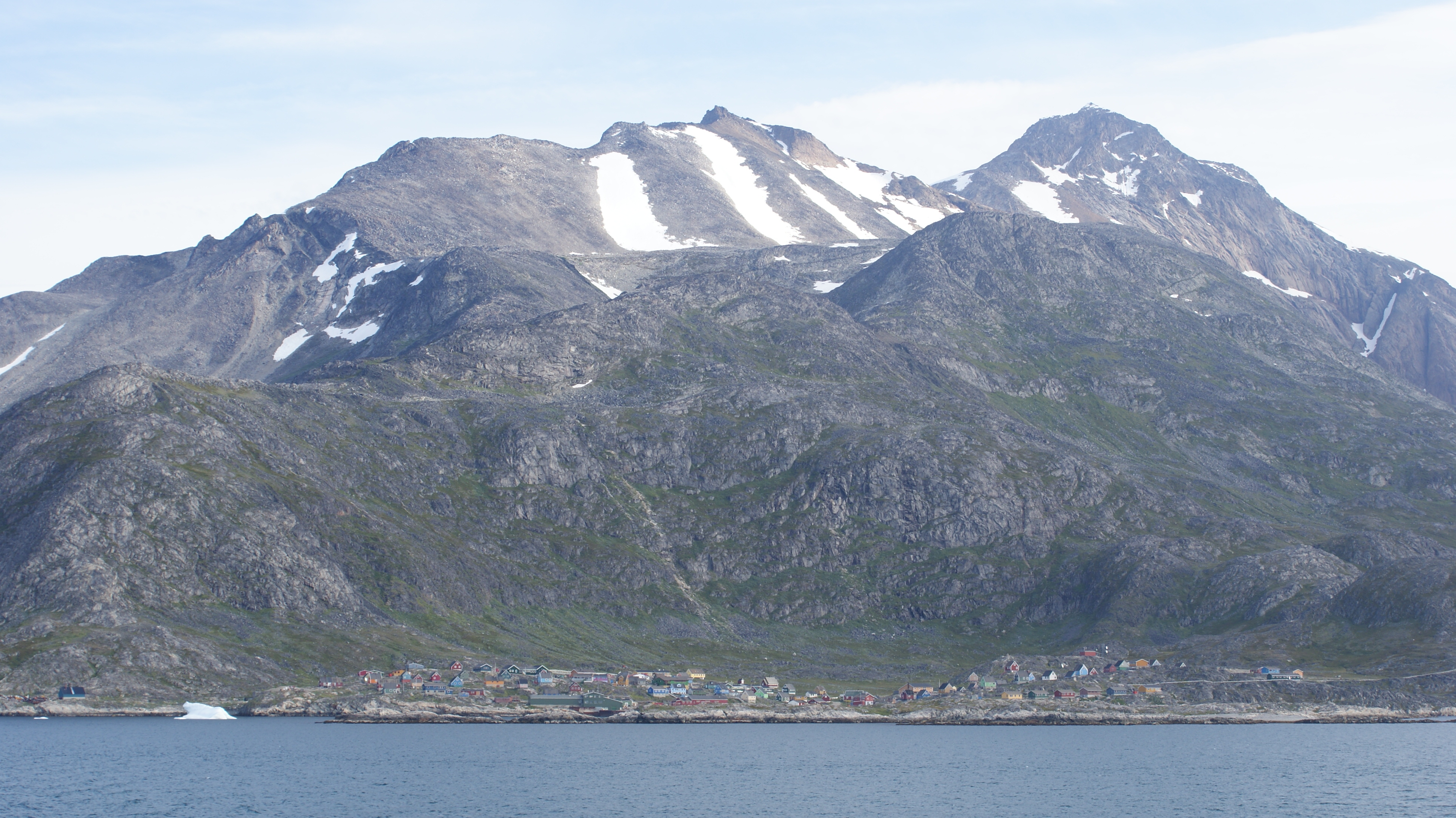 Arsuk, a settlement on the coast of Labrador Sea in southwestern Greenland. Photographed from Sarfaq Ittuk ship of Arctic Umiaq Line. The 1,418 m Kuunnaat mountain towers in the background above the settlement.